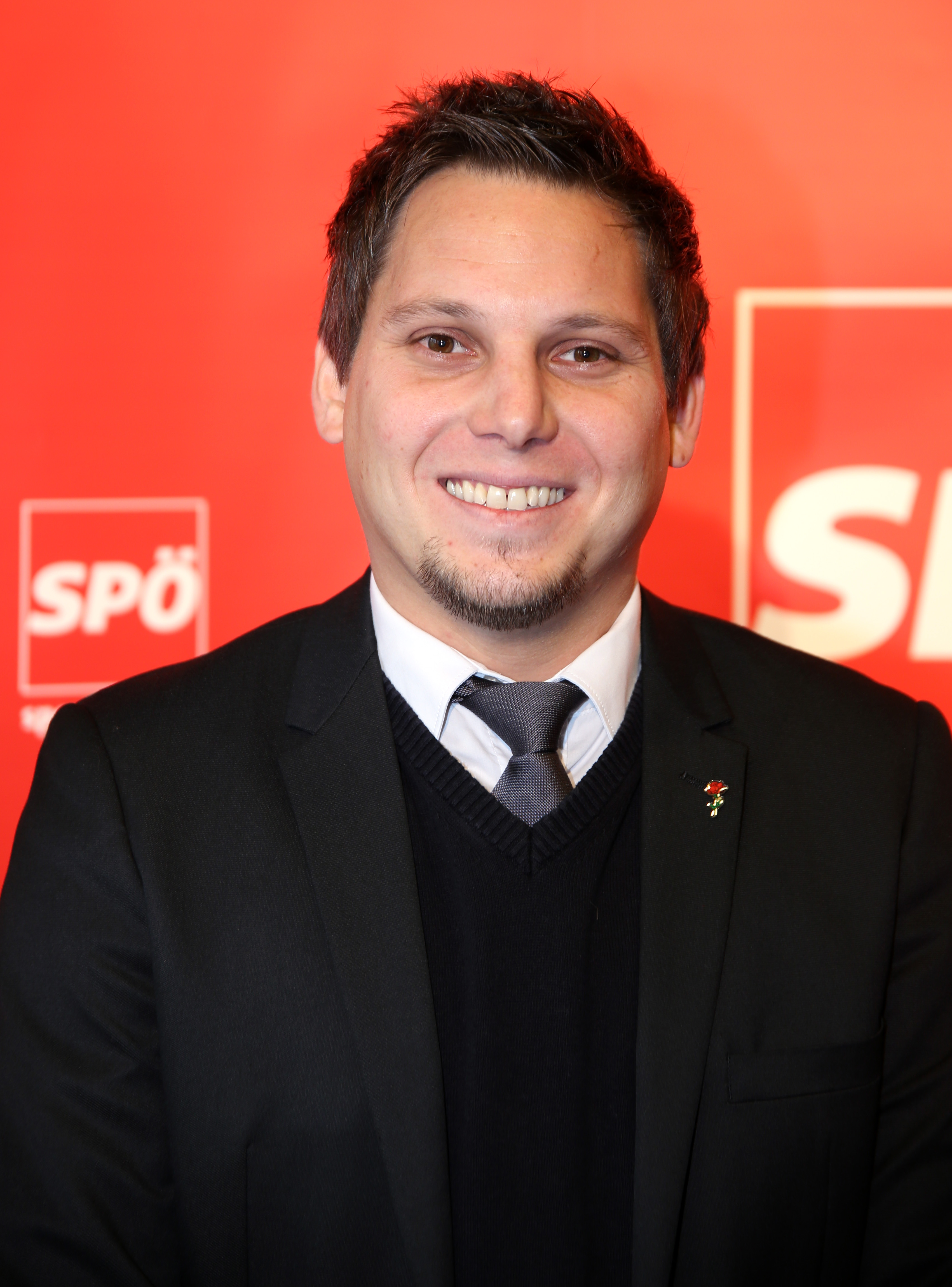 Christian Kovacevic IMG_3658k